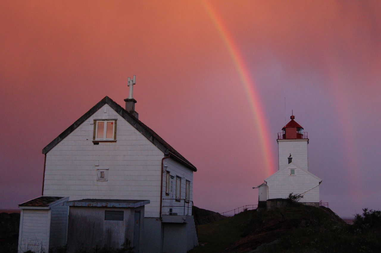 Sunset rainbow over Langøytangen lighthouse, Norway